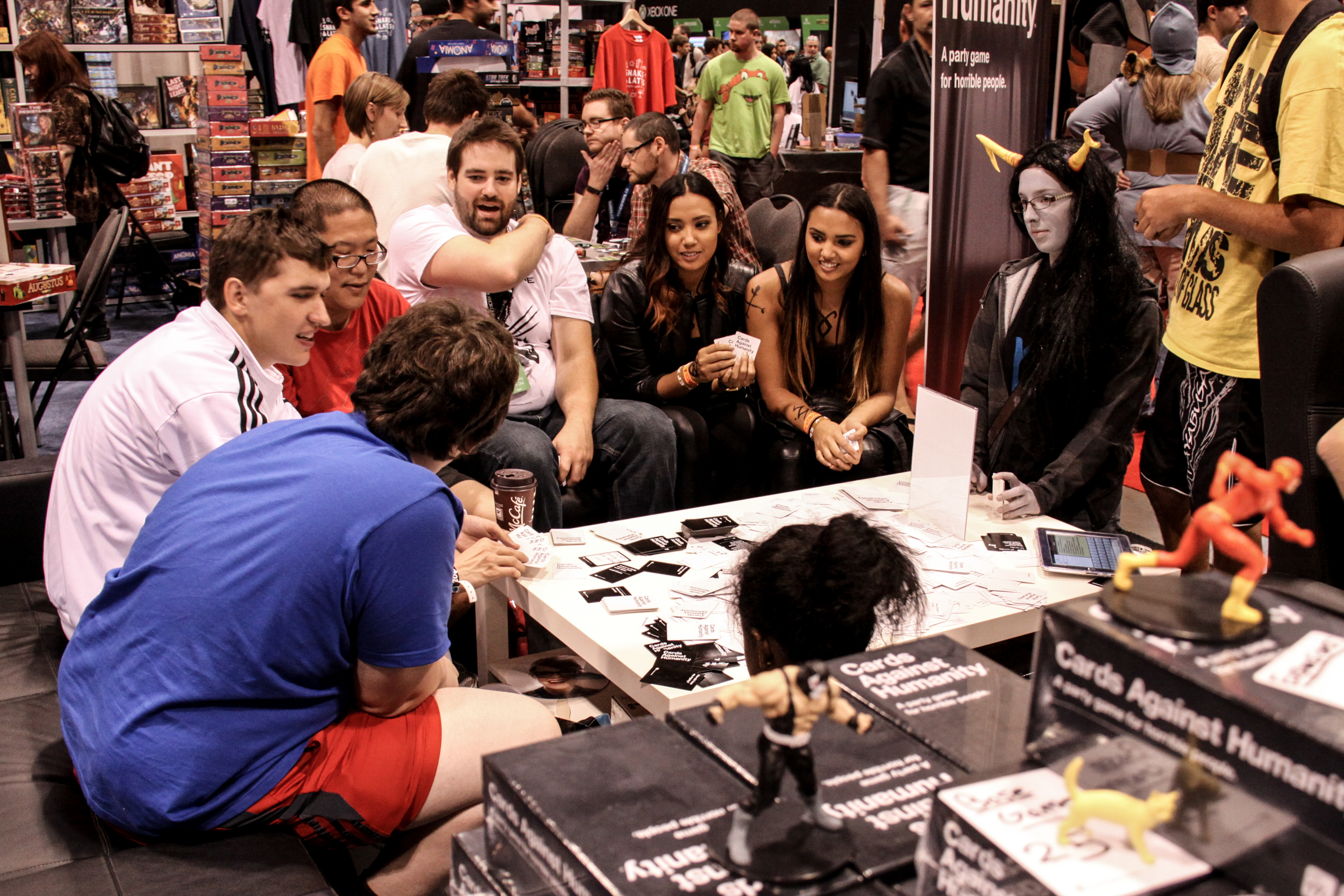 A game of Cards Against Humanity being played at Fan Expo Canada in Toronto in 2013.